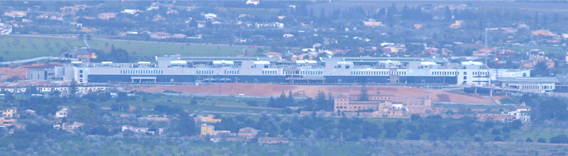 Son Espases, Hospital, Palma Place Lloc/Place: Coll de Sa Creu, Palma